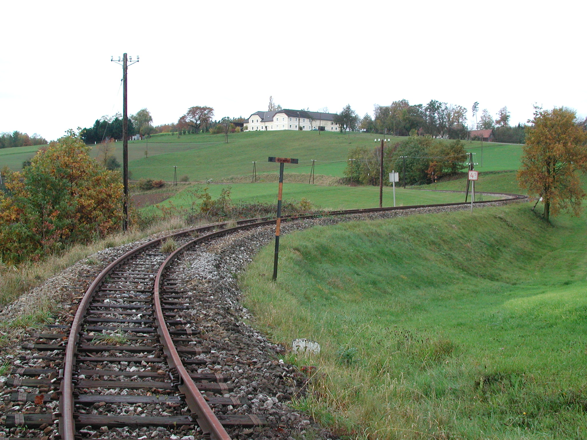 Tracks of the narrow gauge line between Mank and Wieselburg near Grabenegg-Rainberg halt. This section of line was closed in February 2000.